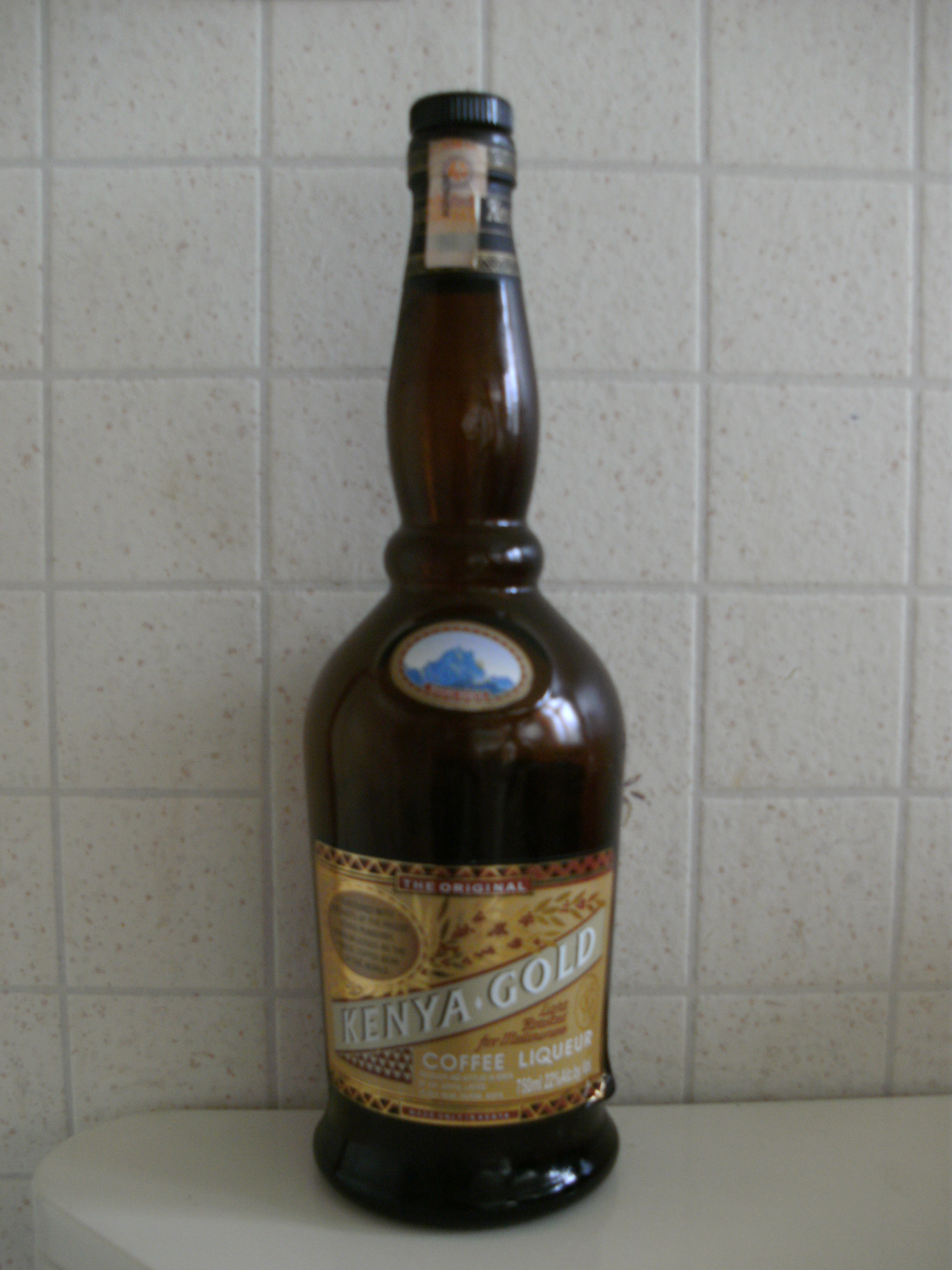 Kenya Gold bottle